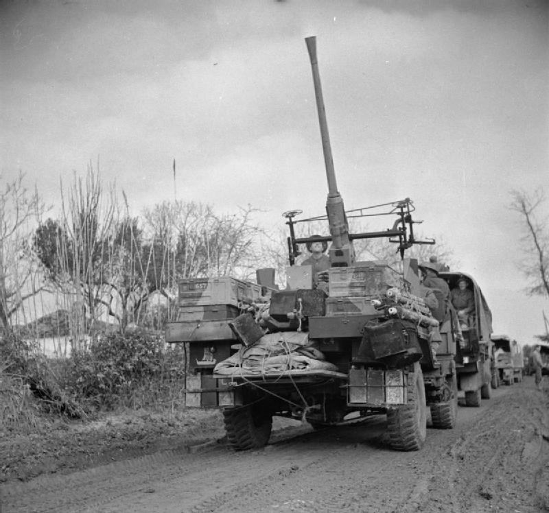 The British Army in Italy 1944 A lorry-mounted 40mm Bofors anti-aircraft gun of the 11th (City of London Yeomanry) Light Anti-Aircraft Regiment, 16 January 1944.